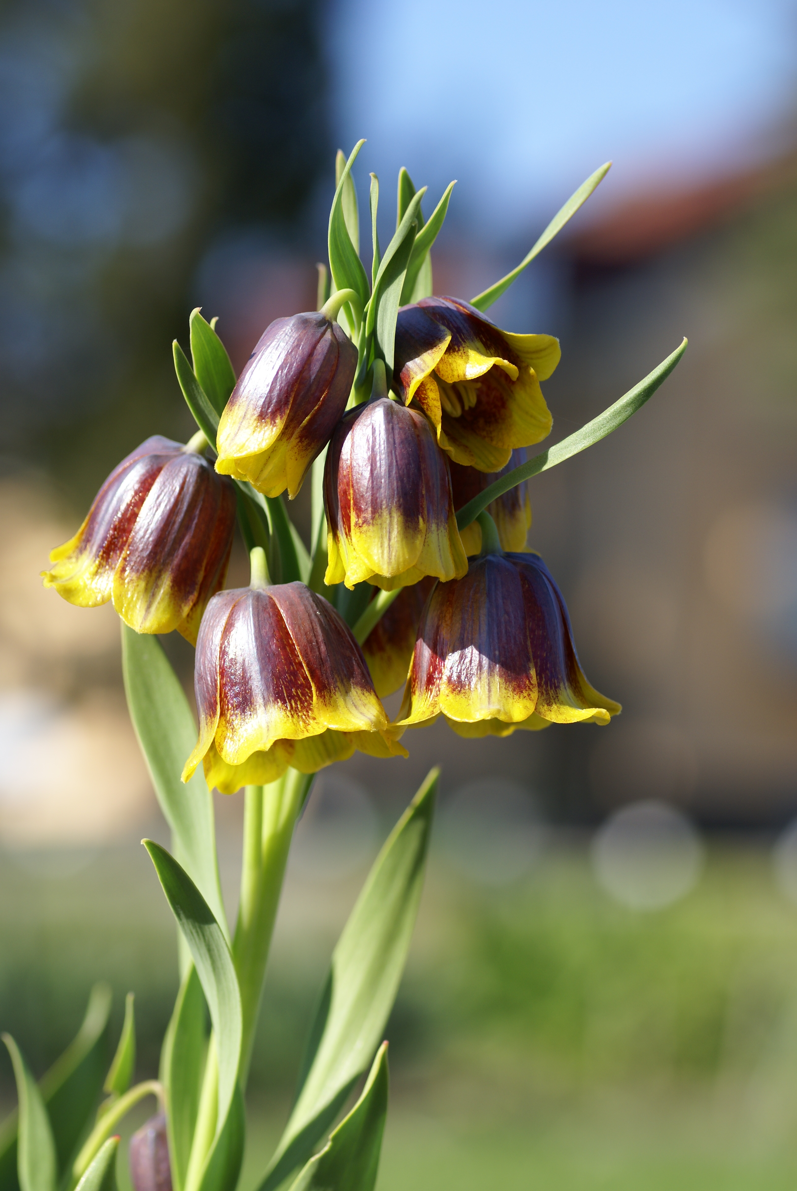 Plant species Fritillaria michailovskyi in Bergianska trädgården, Stockholm, Sweden